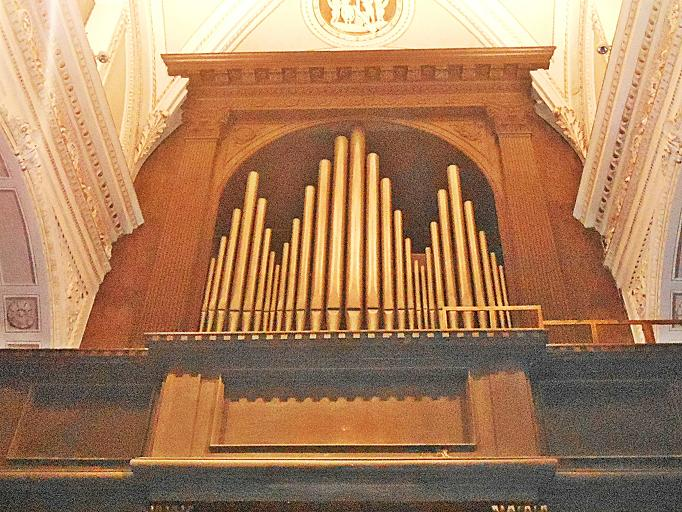 organ